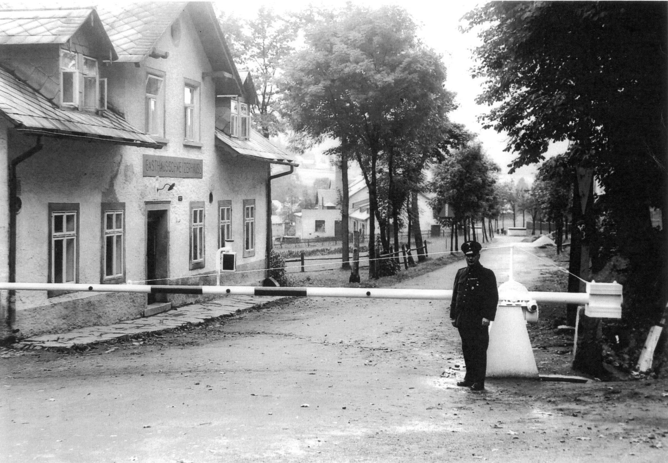 Border crossing